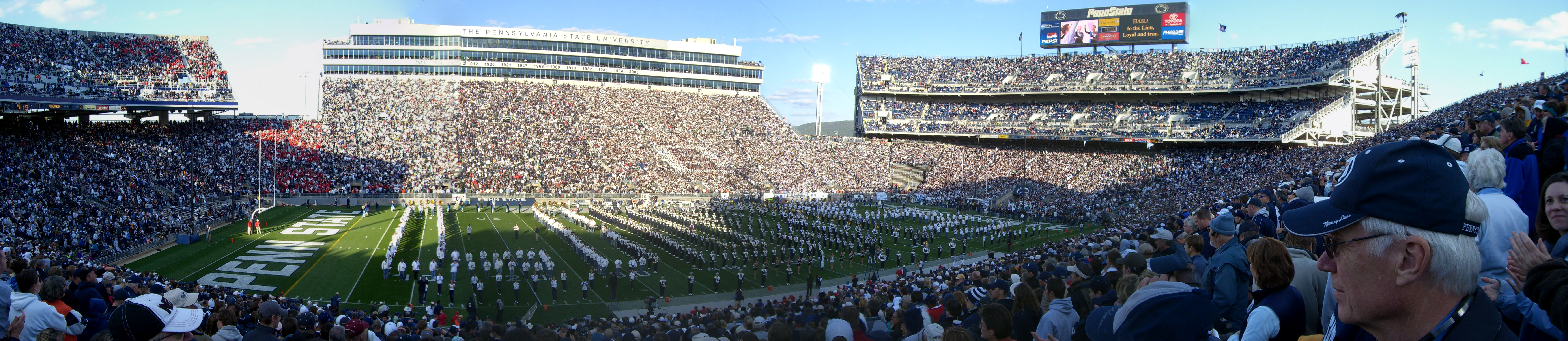 Panorama of the Blue Band at beaver stadium during the 2007 Homecoming Game